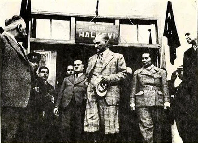 Mustafa Kemal Atatürk and his adopted daughter Sabiha Gökçen visiting the Pertek People's House